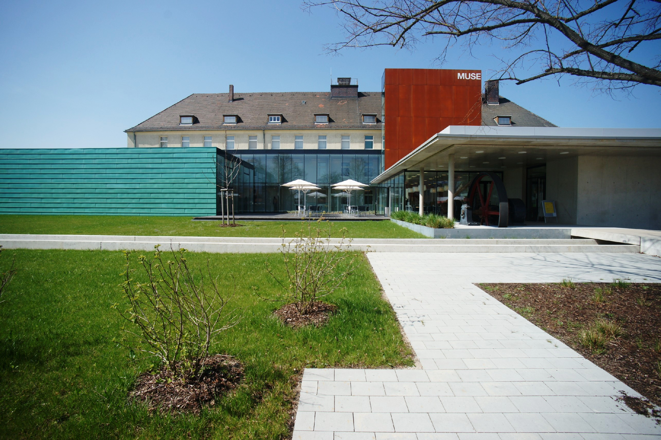 Stadtmuseum Schwabach